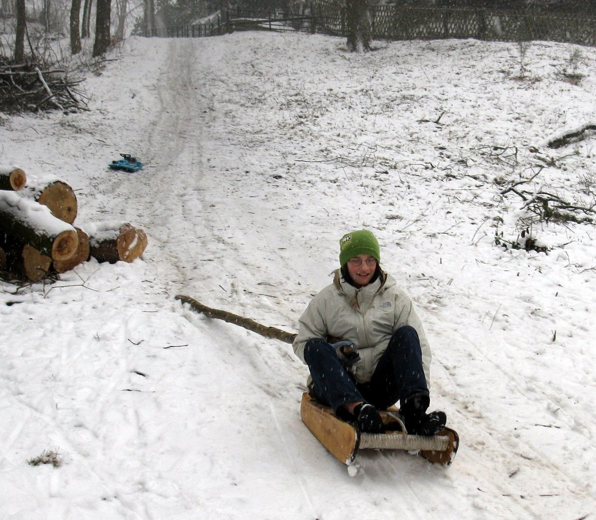 Kreek, traditional sled as used in Hamburg-Blankenese